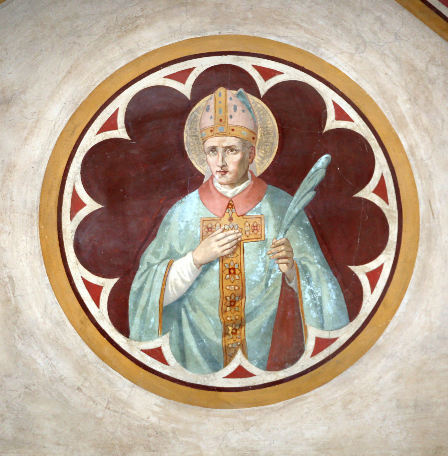 Duomo (Fiesole) - Interior